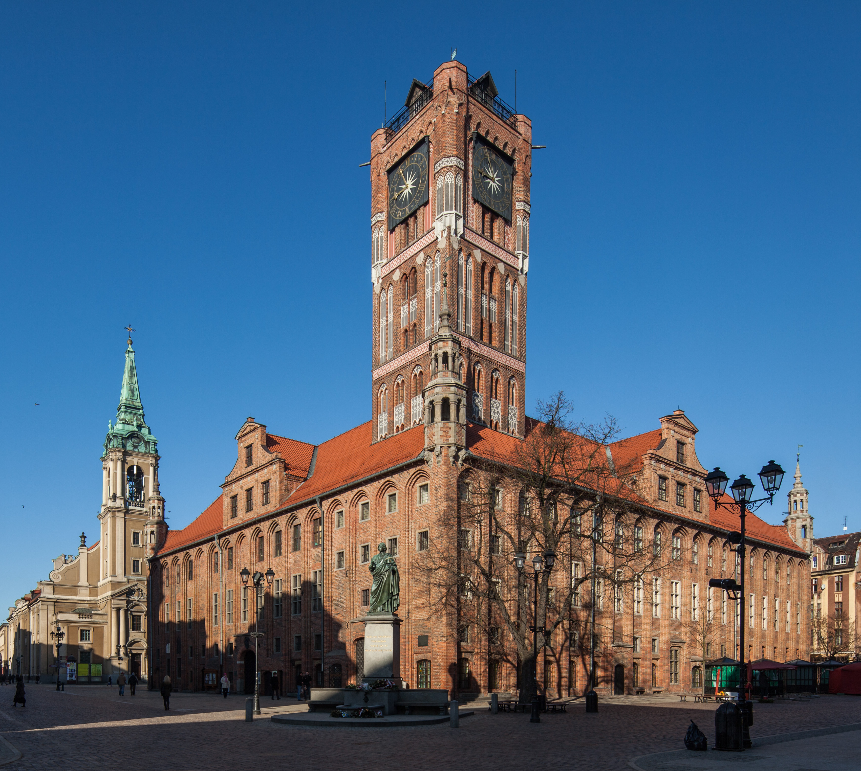 Old Town Hall in Toruń, Poland